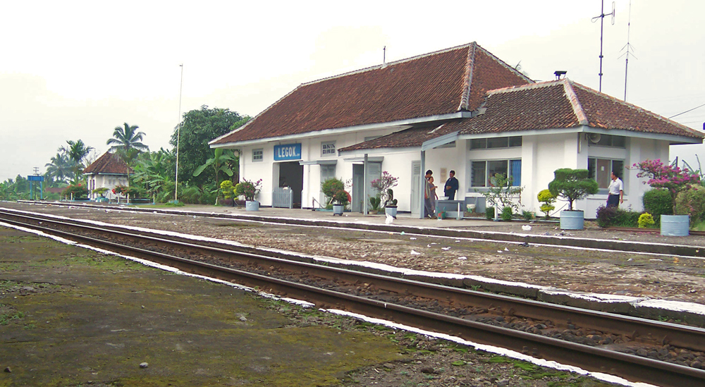 Legok train station, Banyumas, Central Java